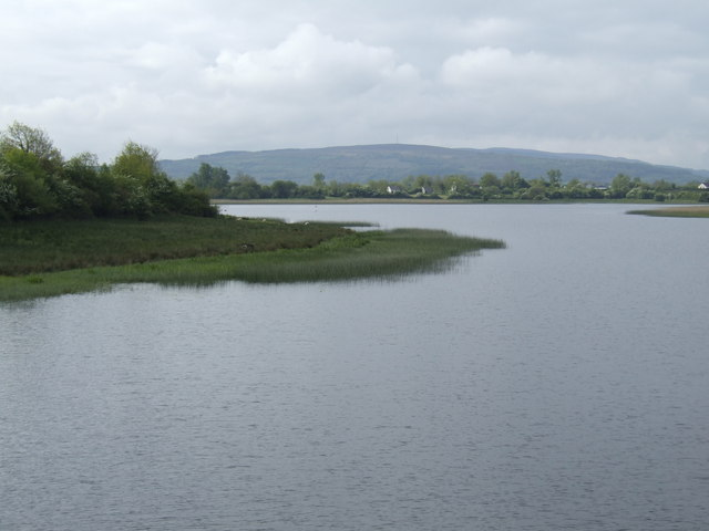 Upper Lough Erne View south from the viaduct onto Inishnore. The dome of Slieve Rushen is in the distance.